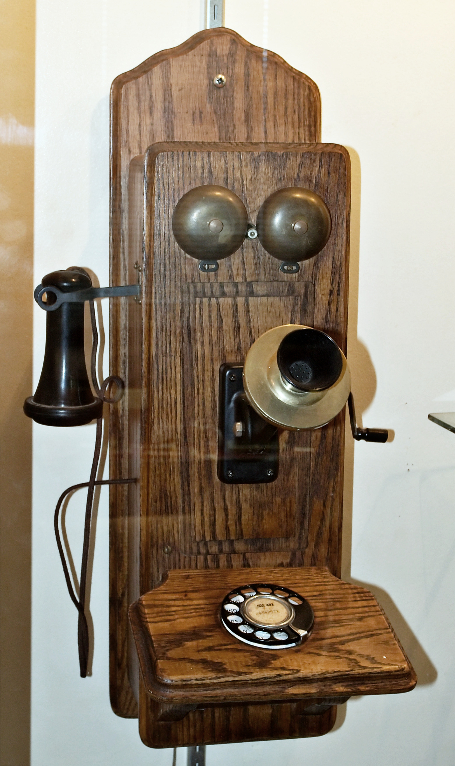 An early model wall mounted telephone, in the Champaign County Historical Museum, Champaign, IL